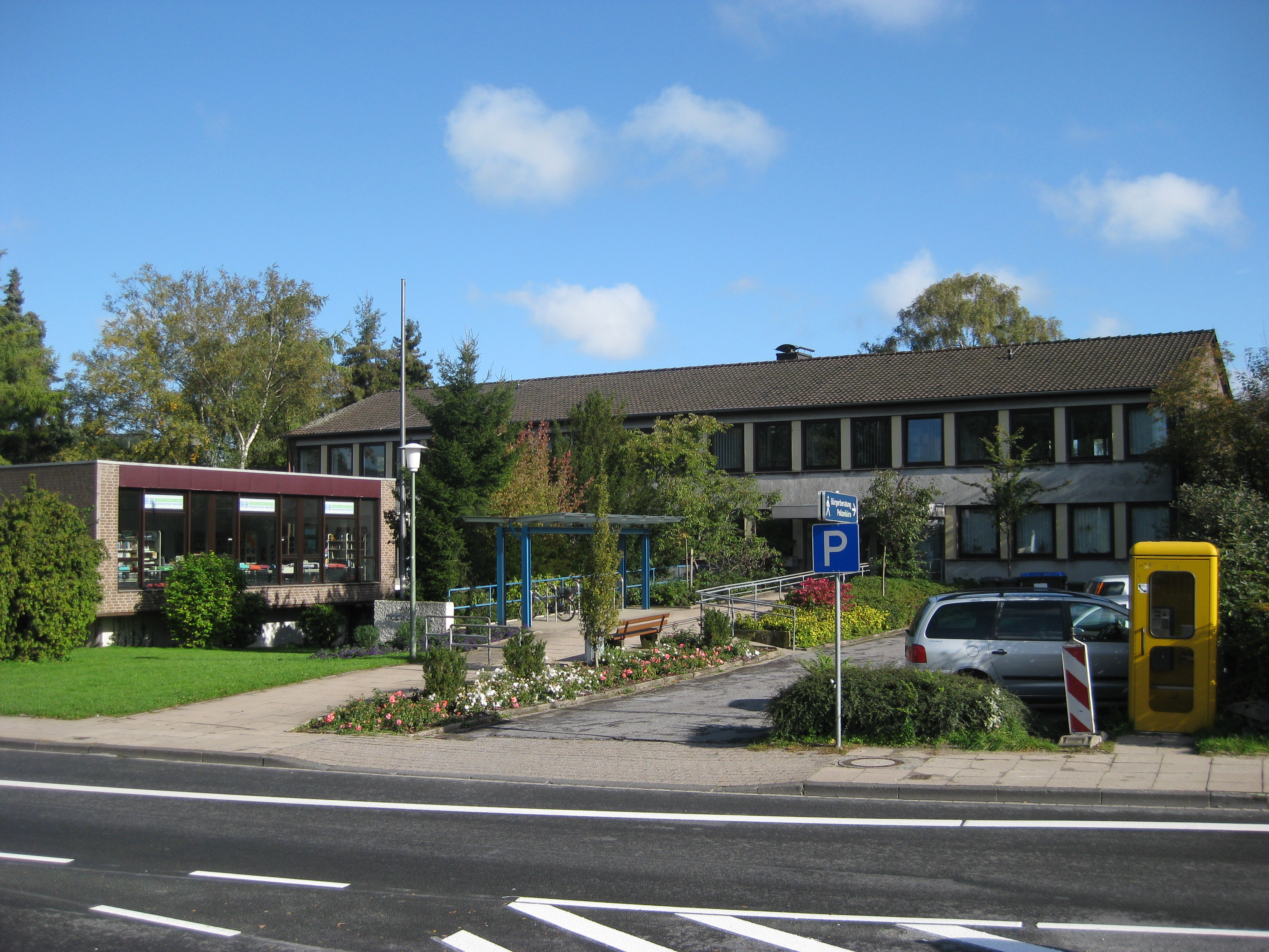 office building of the former Amt Dornberg in Bielefeld-Dornberg